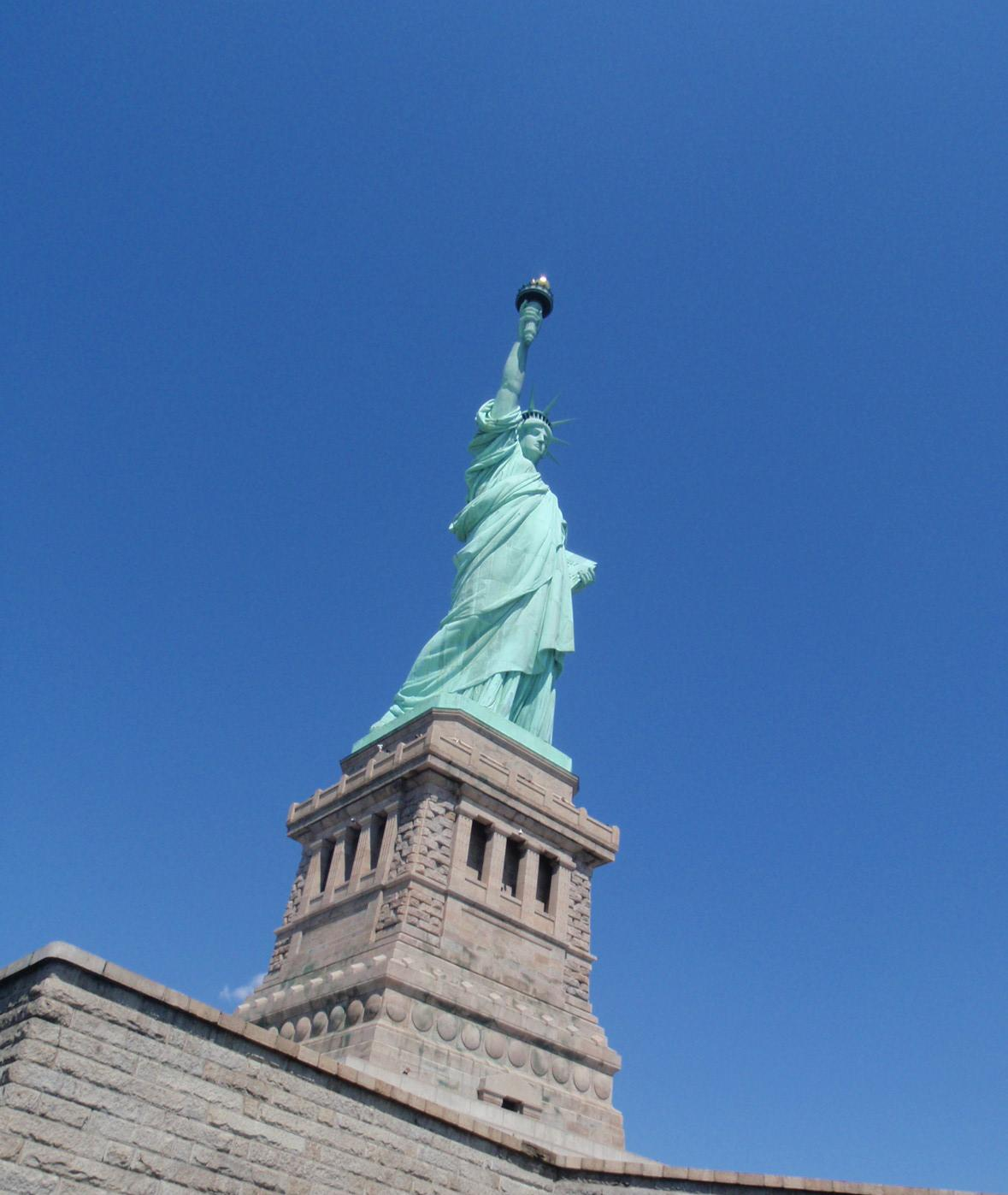 a picture taken by myself on holydays